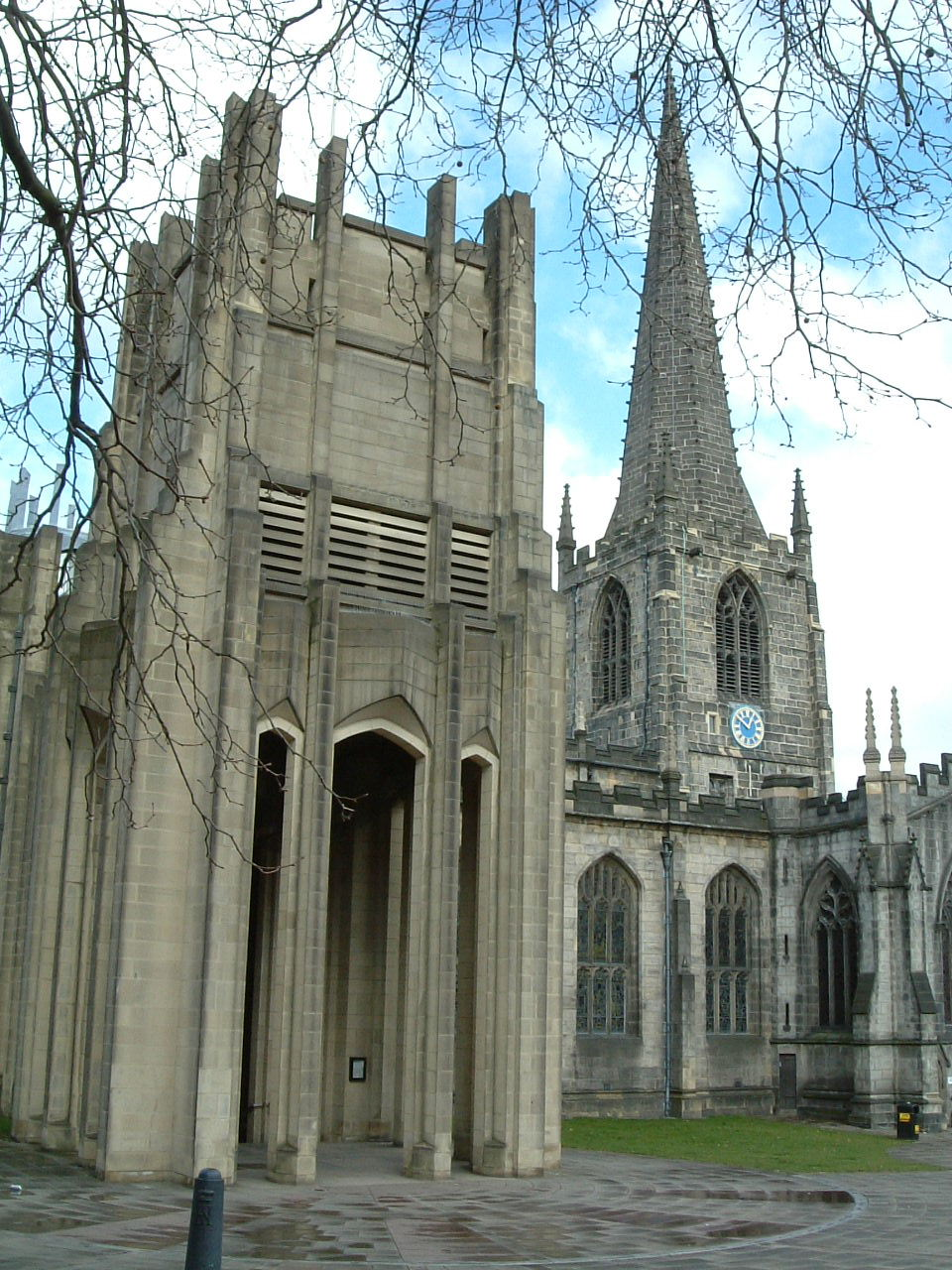 Sheffield Cathedral from the south-west